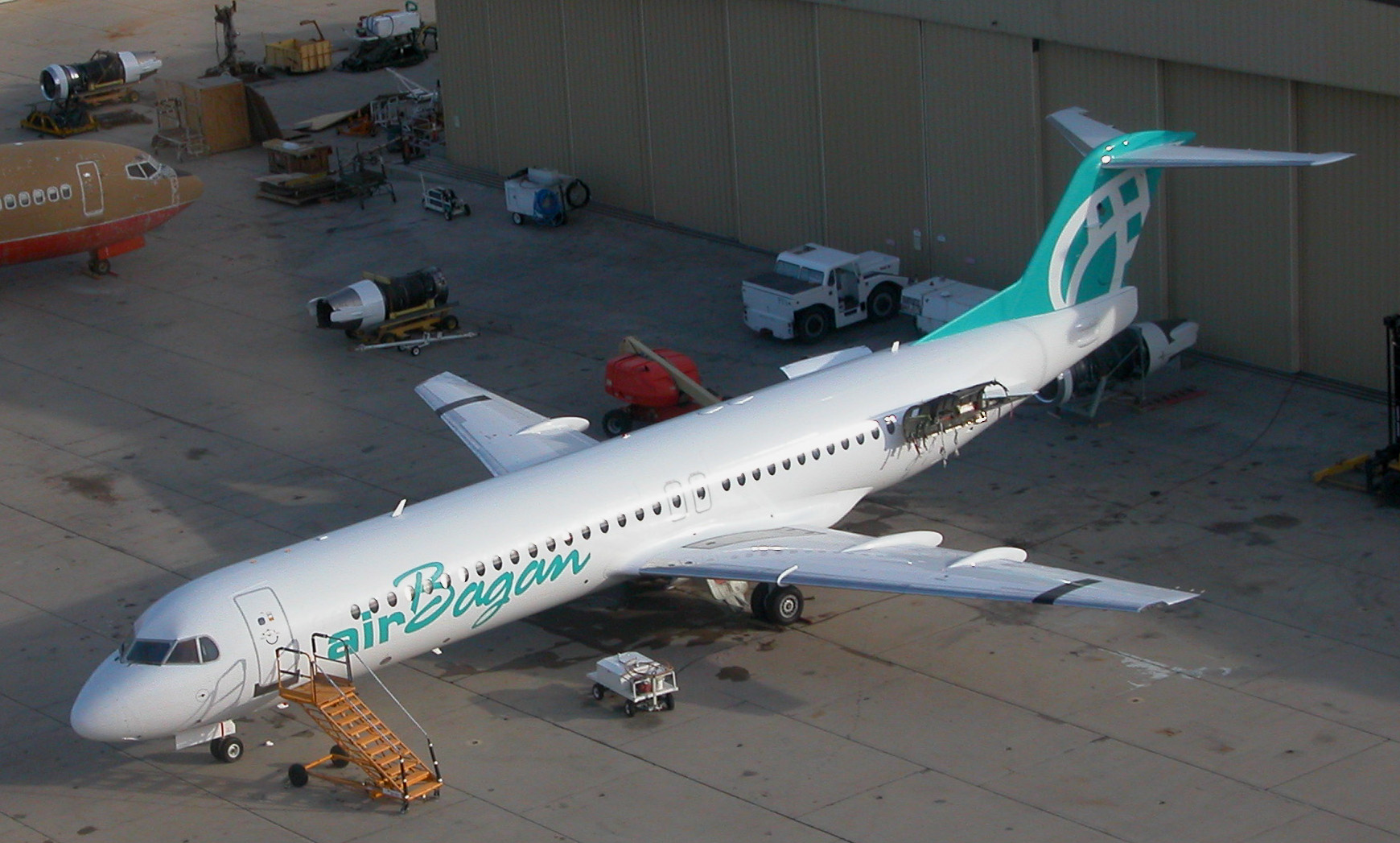 Air Bagan Fokker F100 at Mojave, California